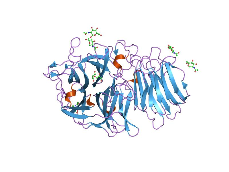 Cartoon representation of the molecular structure of protein registered with 1y4w code.